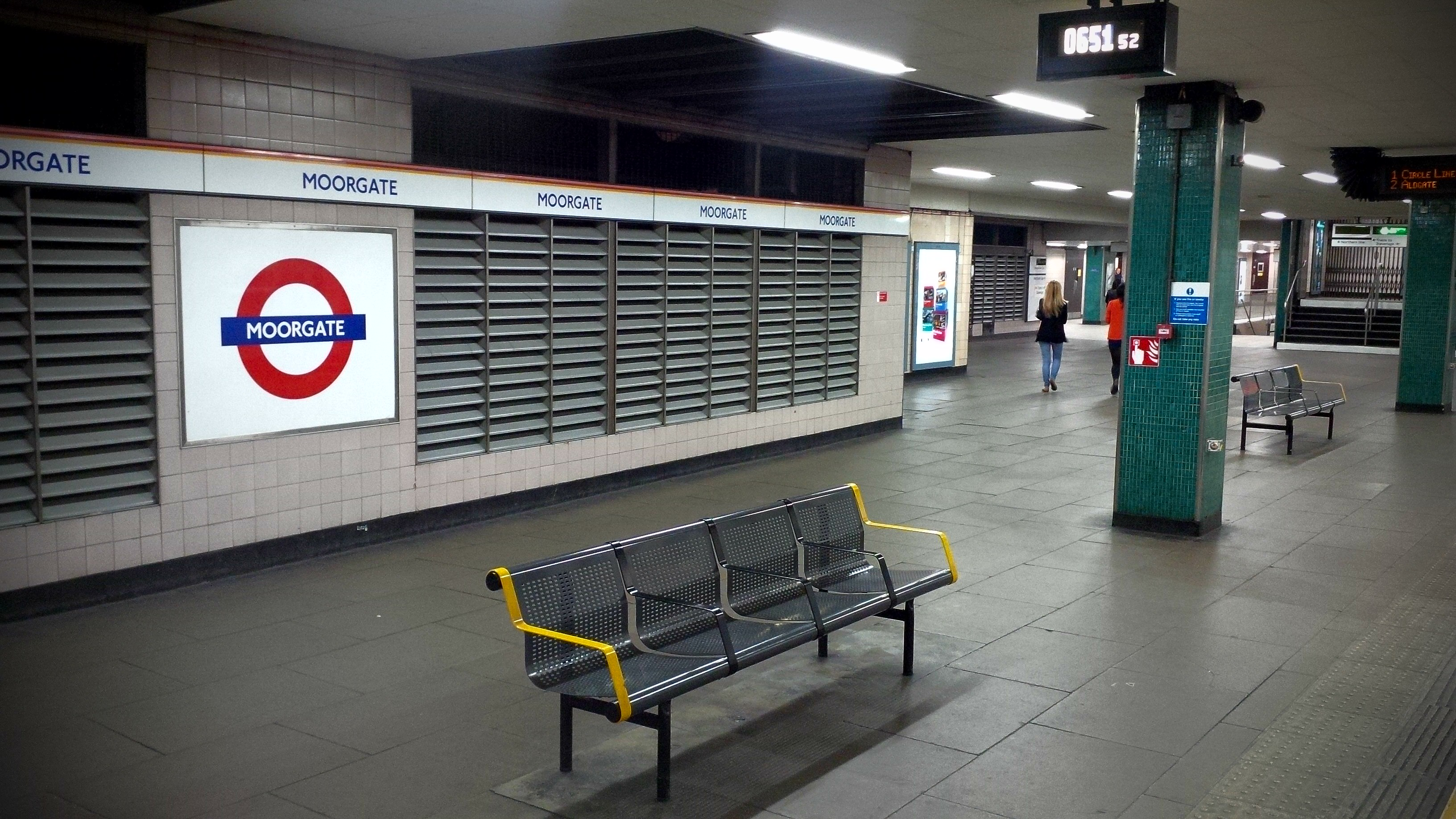 Interior of the Moorgate tube station, 2013